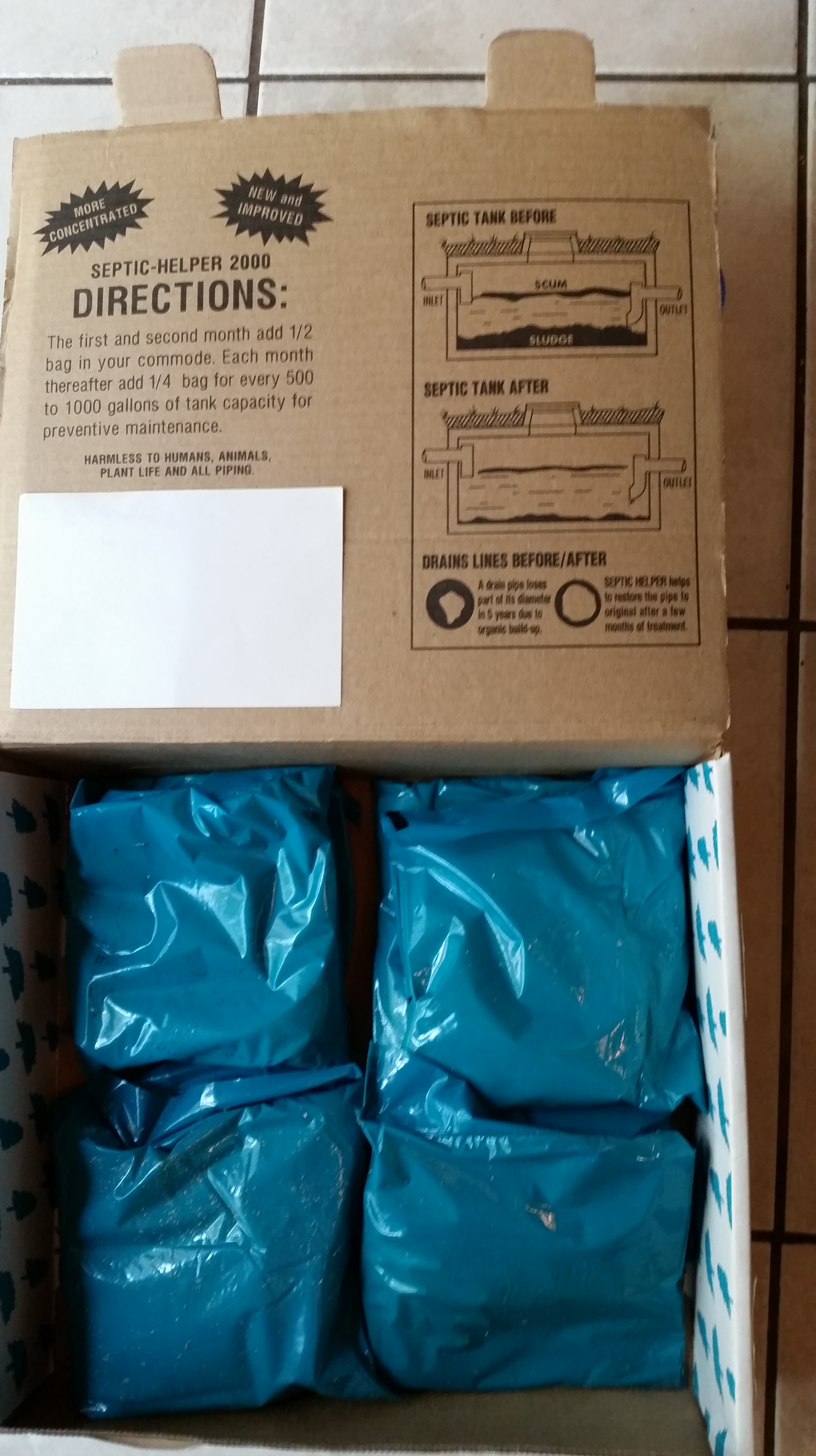 The blue packets of powdered material claim to be enzymes and bacteria which will remove scum from the surface area of septic tanks.